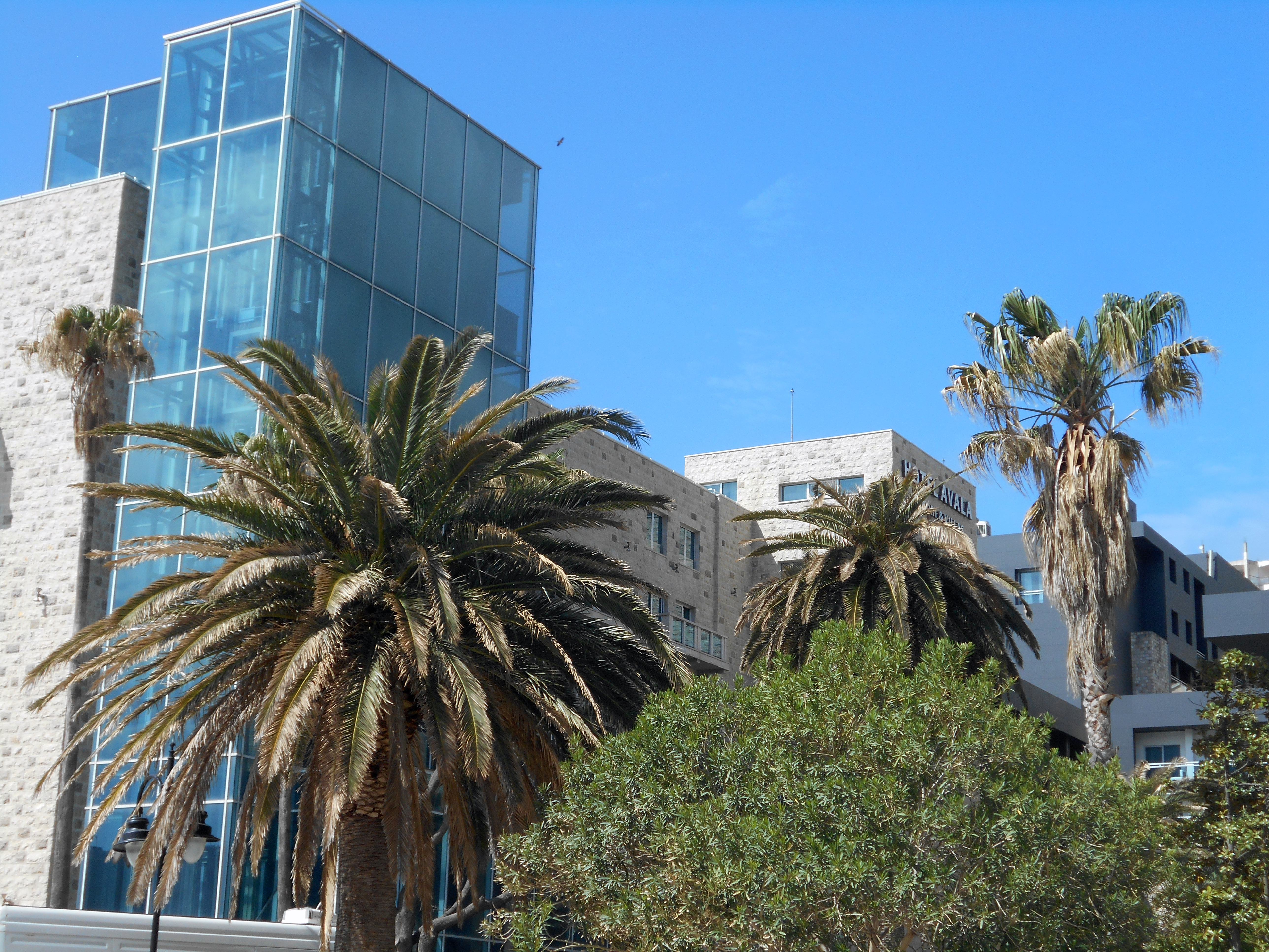 Damage on the palm trees, caused by unusualy low winter temperatures in the Mediterranean. Budva, Montenegro